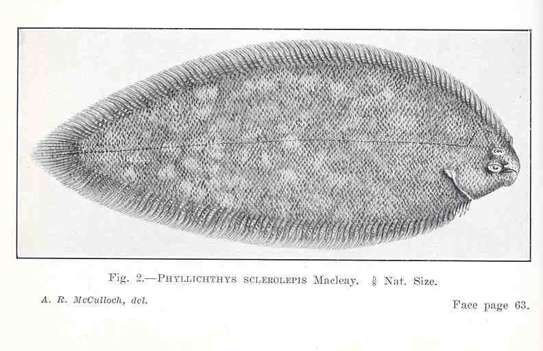 Phyllichthys sclerolepis Macleay Subject: Phyllichthys sclerolepis Tag: Fish